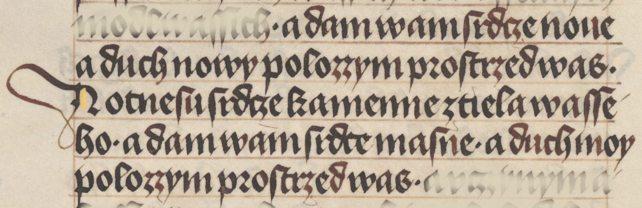 Cut-out from the "Bible olomoucká" (Old-Czech Bible of Olomouc, 1417, w: Research Library in Olomouc), fol. 109v, Ezekiel 36:26, This part will be used for the cover of the Czech version of the w: Daily Watchwords 2017 – the 600th aniversary of this Bible.